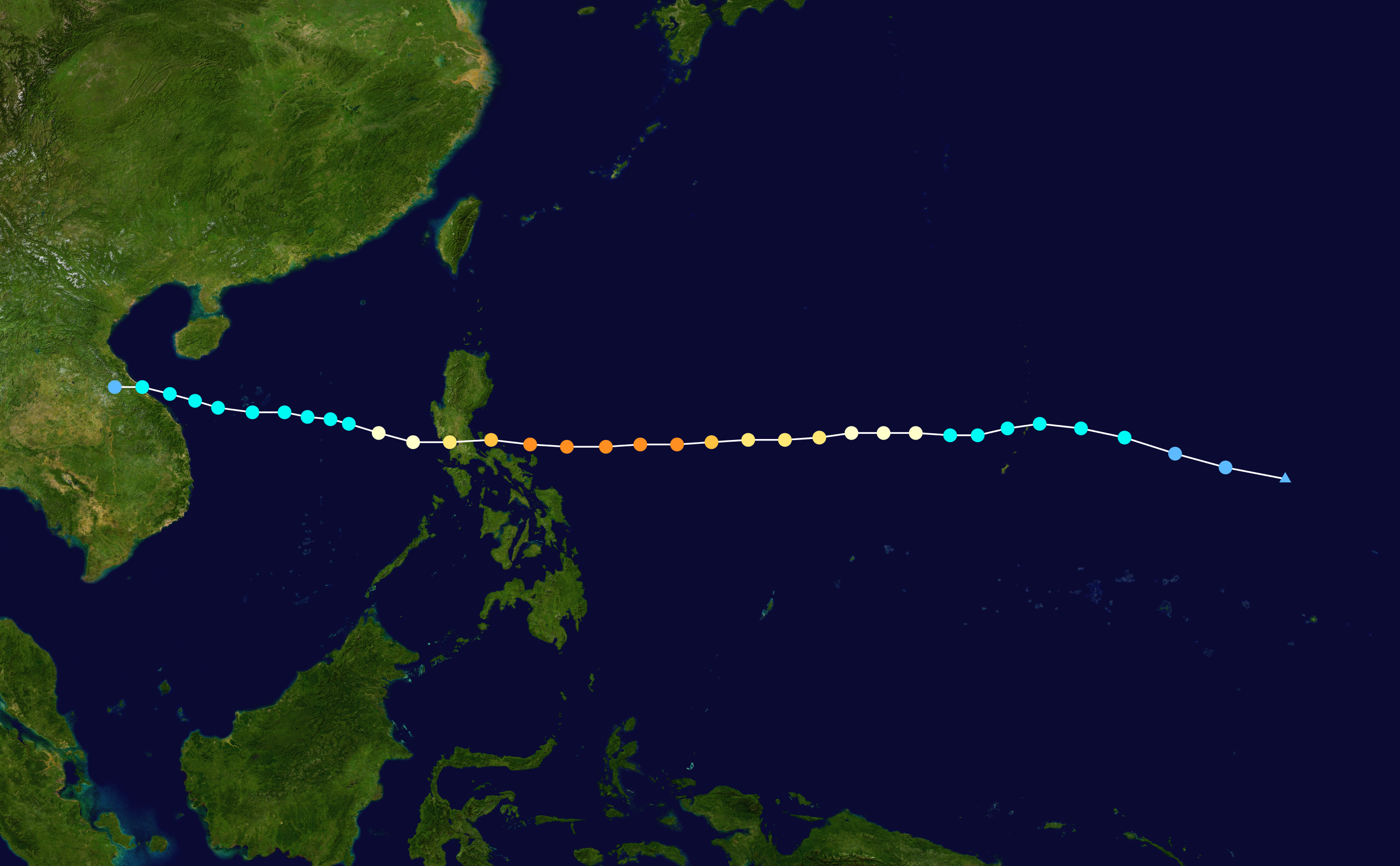 Track map of Typhoon Patsy of the 1970 Pacific typhoon season. The points show the location of the storm at 6-hour intervals. The colour represents the storm's maximum sustained wind speeds as classified in the Saffir–Simpson hurricane wind scale (see below), and the shape of the data points represent the nature of the storm, according to the legend below. Saffir–Simpson hurricane wind scale Tropical depression≤38 mph≤62 km/h Category 3111–129 mph178–208 km/h Tropical storm39–73 mph63–118 km/h Category 4130–156 mph209–251 km/h Category 174–95 mph119–153 km/h Category 5≥157 mph≥252 km/h Category 296–110 mph154–177 km/h Unknown Storm typeTropical cycloneSubtropical cycloneExtratropical cyclone / Remnant low / Tropical disturbance